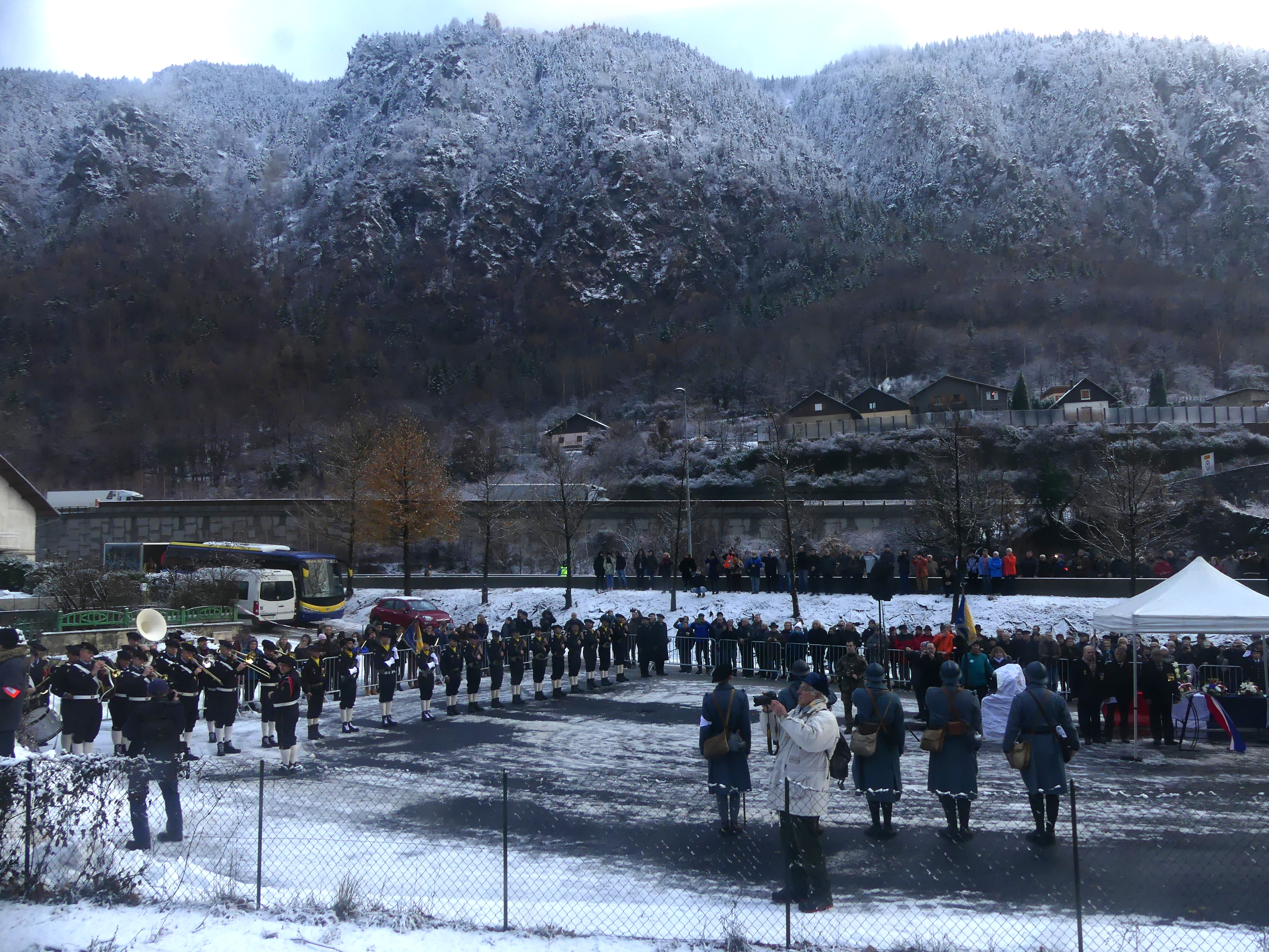 Sight, from the special train, of the remembrance ceremony for the 100th anniversary of the derailment which occurred in Saint-Michel-de-Maurienne in Savoie (France), on December, 12th 1917.